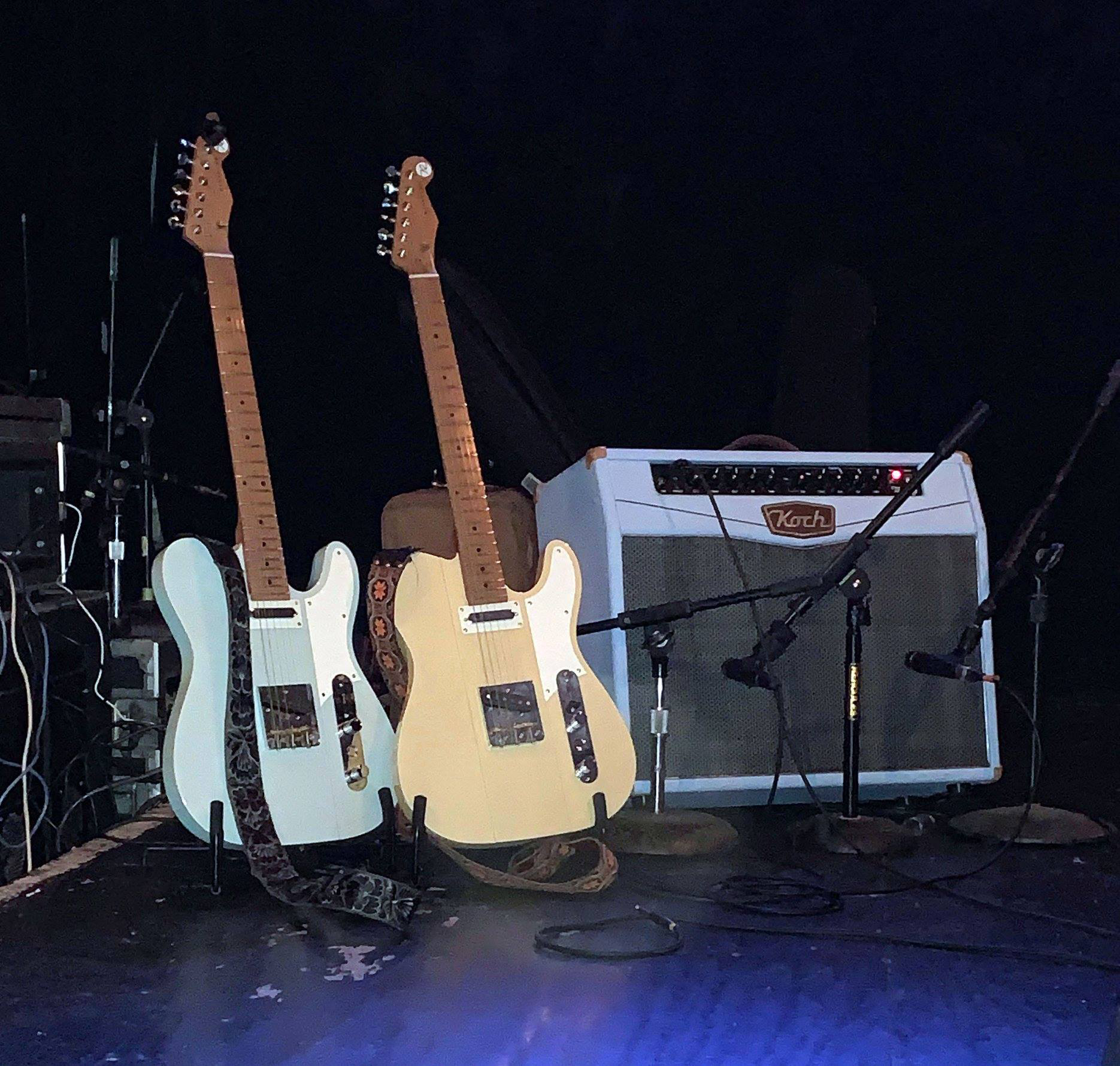 Photo taken March 16, 2019 at Shank Hall in Milwaukee Wisc, Just prior to the Greg Koch live performace